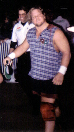 Rad Radford at a WWF event in 1995